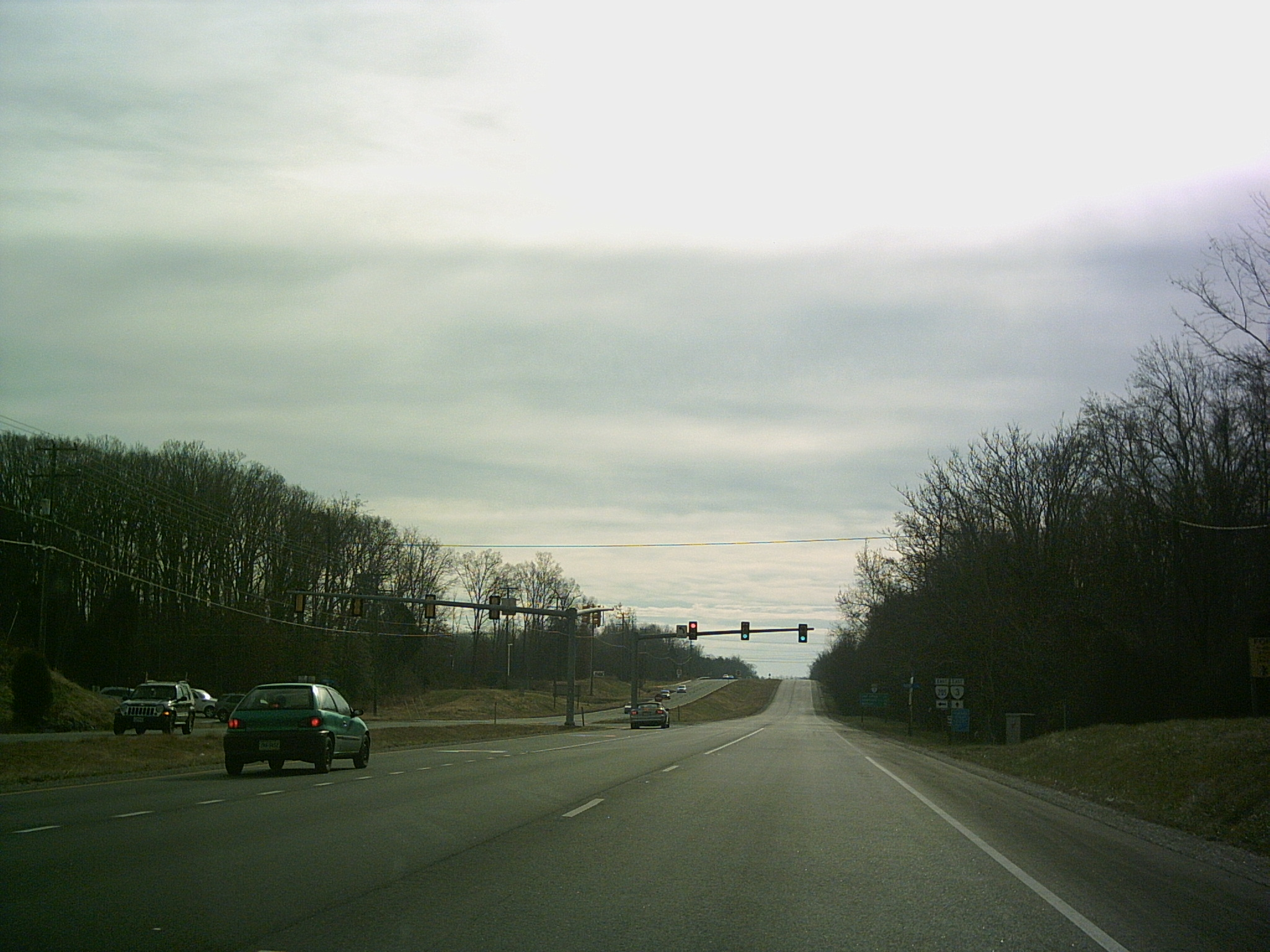 Kings Highway at Purkins Corner, Virginia